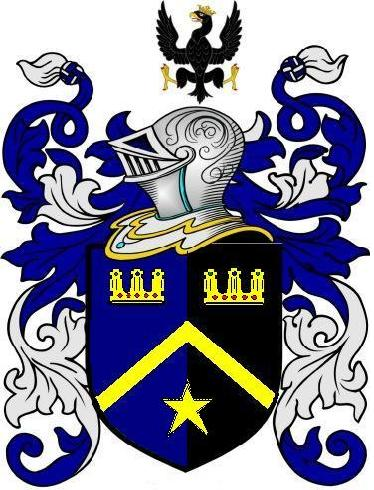 Heraldry/Logo for the Kingdom of Stanislaus Medieval Reenactment and Role Playing Society